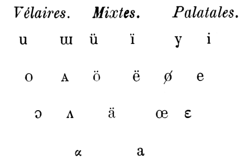 IPA vowels in Passy (1890) Étude sur les changements phonétiques et leurs caractères généraux, p. 84.